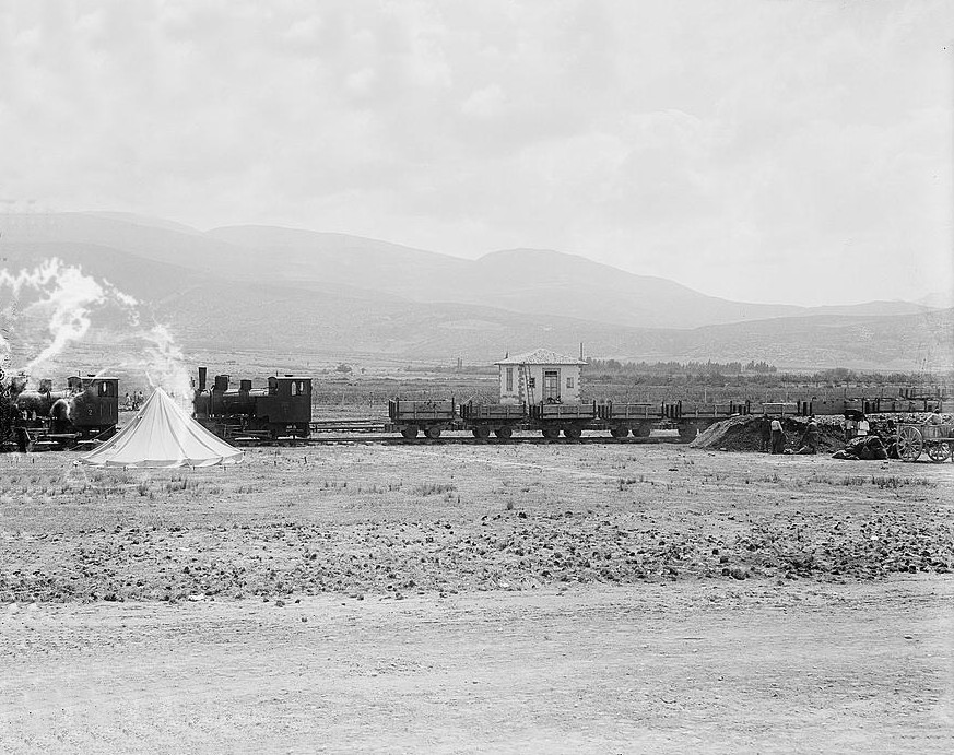 German Baghdad Railway: two locomotives pulling open cars on the 97 km İskenderun (then: Alexandretta) - Osmaniye line, which was opened on 1 November 1913.